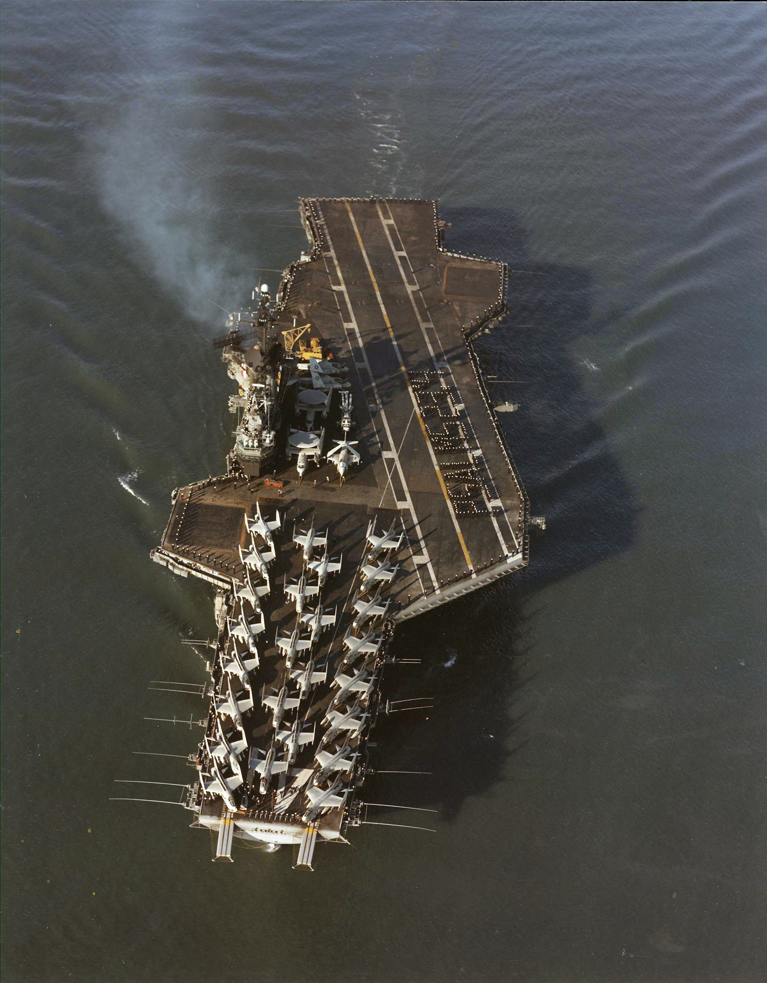 The U.S. Navy aircraft carrier USS Midway (CVA-41) returning to Alameda, California. Midway with assigned Carrier Air Wing 5 (CVW-5), was deployed to Vietnam from 16 APR ~ 06 NOV 1971. The crew spells "Psalms 23.4" ("Even though I walk through the darkest valley, I fear no evil; for you are with me; your rod and your staff — they comfort me.").